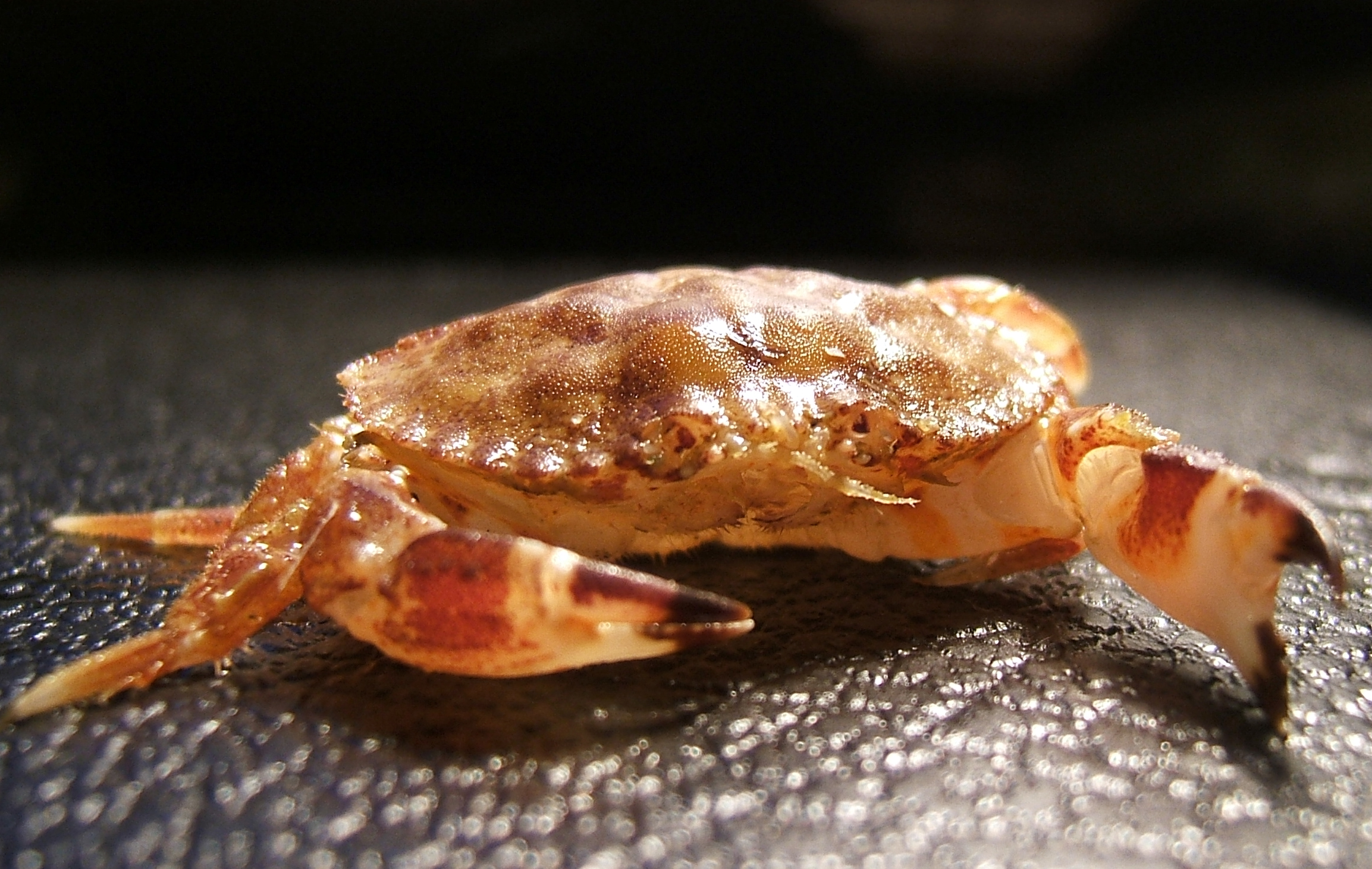 This is a molt made by Cancer anthonyi, the picture was taken by Dave Pena